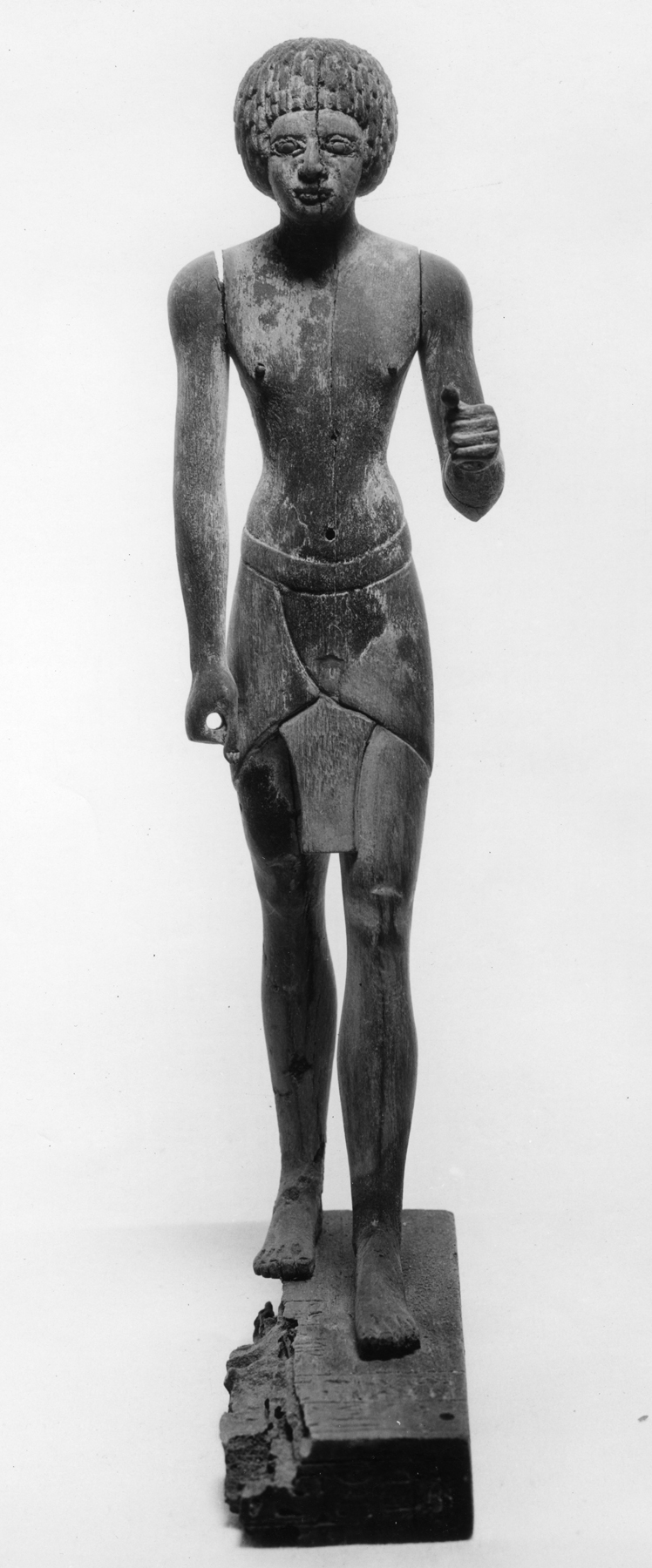 Sesostris wears a short tripartite shendyt and a curled wig. He has lost his traditional attributes-the staff in the left hand and the scepter in his right. The inscription on the base contains an offering formula that promises: "The king may guarantee offerings [to the god] Osiris [that he may give] mortuary offerings of bread, beer, oxen, fowl, and incense to Sesostris."